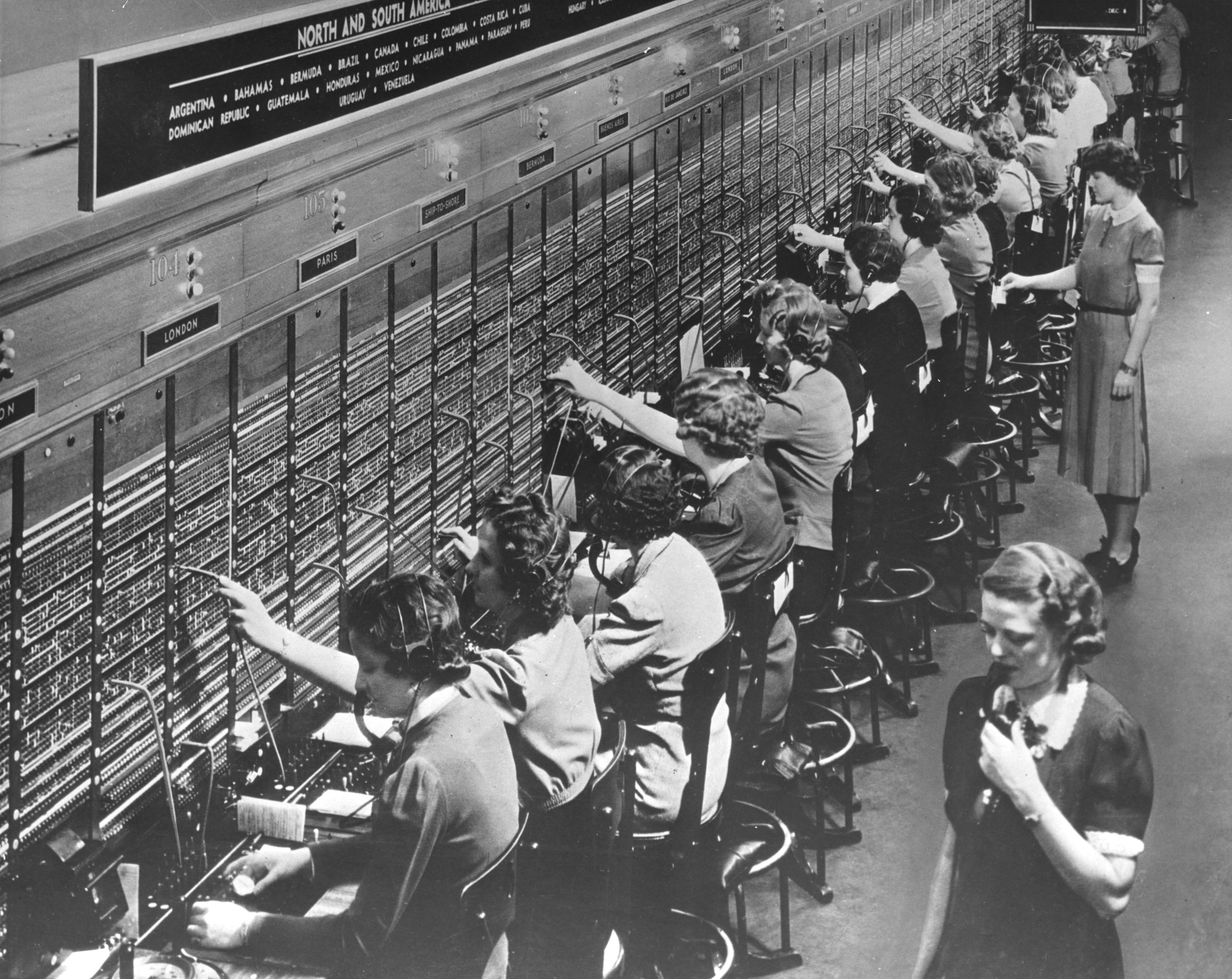 Original Caption: Photograph of Women Working at a Bell System international Telephone Switchboard U.S. National Archives' Local Identifier: 86-WWT-28-3 Subjects: World War, 1939-1945 Labor Women Persistent URL: For more information about records related to women and women’s issues at the U.S. National Archives, visit: Repository: Still Picture Records Section, Special Media Archives Services Division (NWCS-S), National Archives at College Park, 8601 Adelphi Road, College Park, MD, 20740-6001. For information about ordering reproductions of photographs held by the U.S. National Archives' Still Picture Unit, visit: Reproductions may be ordered via an independent vendor. The U.S. National Archives maintains a list of vendors at Buy copies of selected National Archives photographs and documents at the National Archives Print Shop online: Access Restrictions: Unrestricted Use Restrictions: Unrestricted